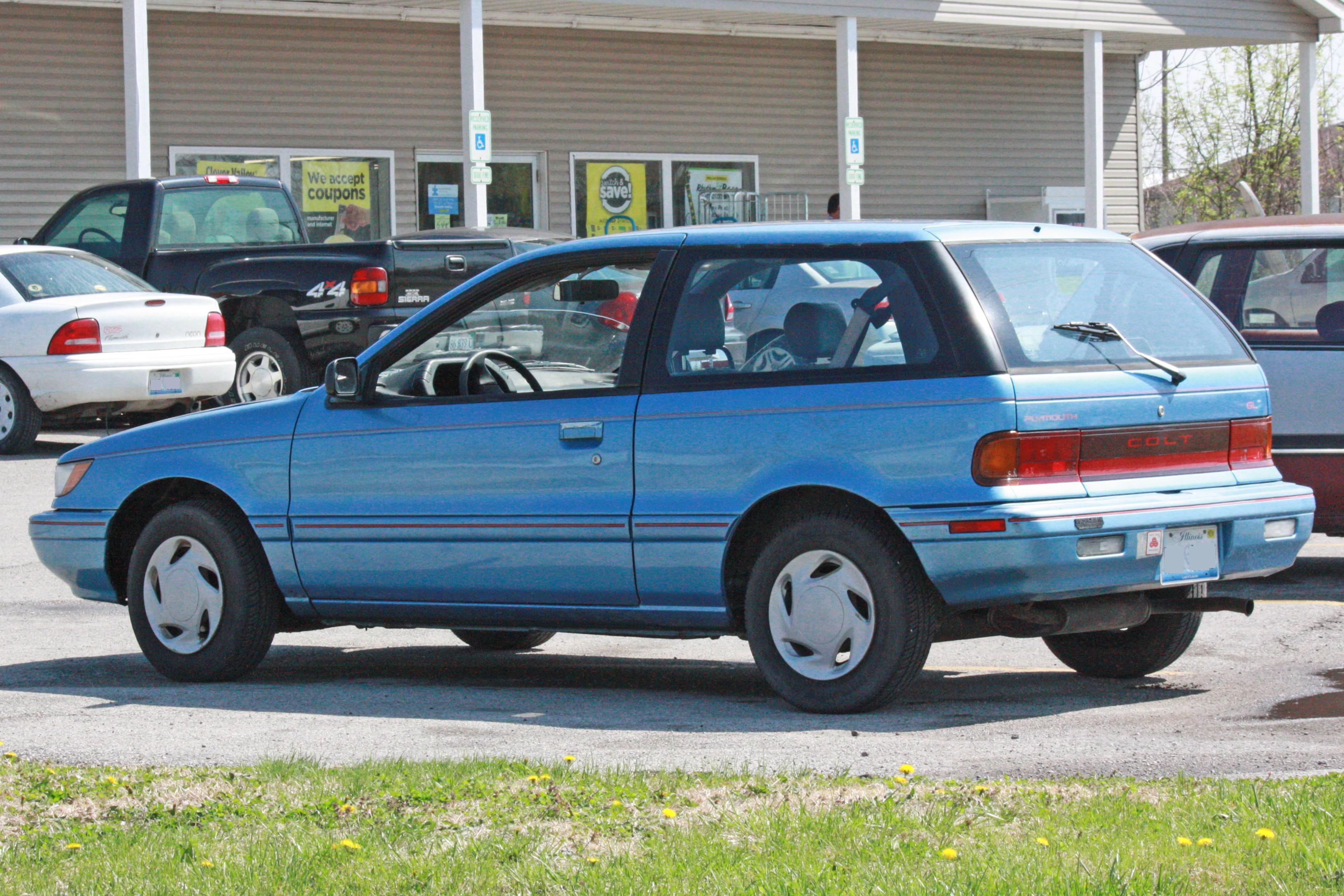 Rear view of the Plymouth Colt